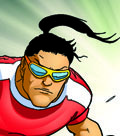 El Matador - skilled striker for SupaStrikas FC